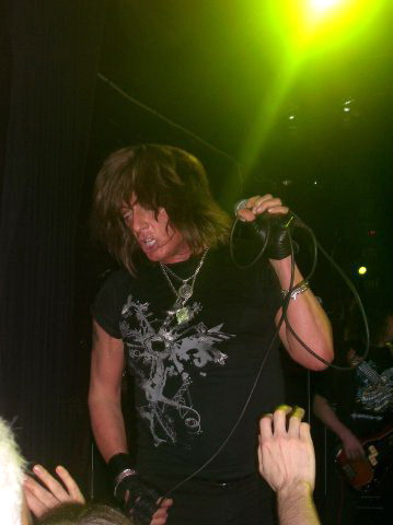 Joe Lynn Turner in 2008 (during the concert in Moscow)